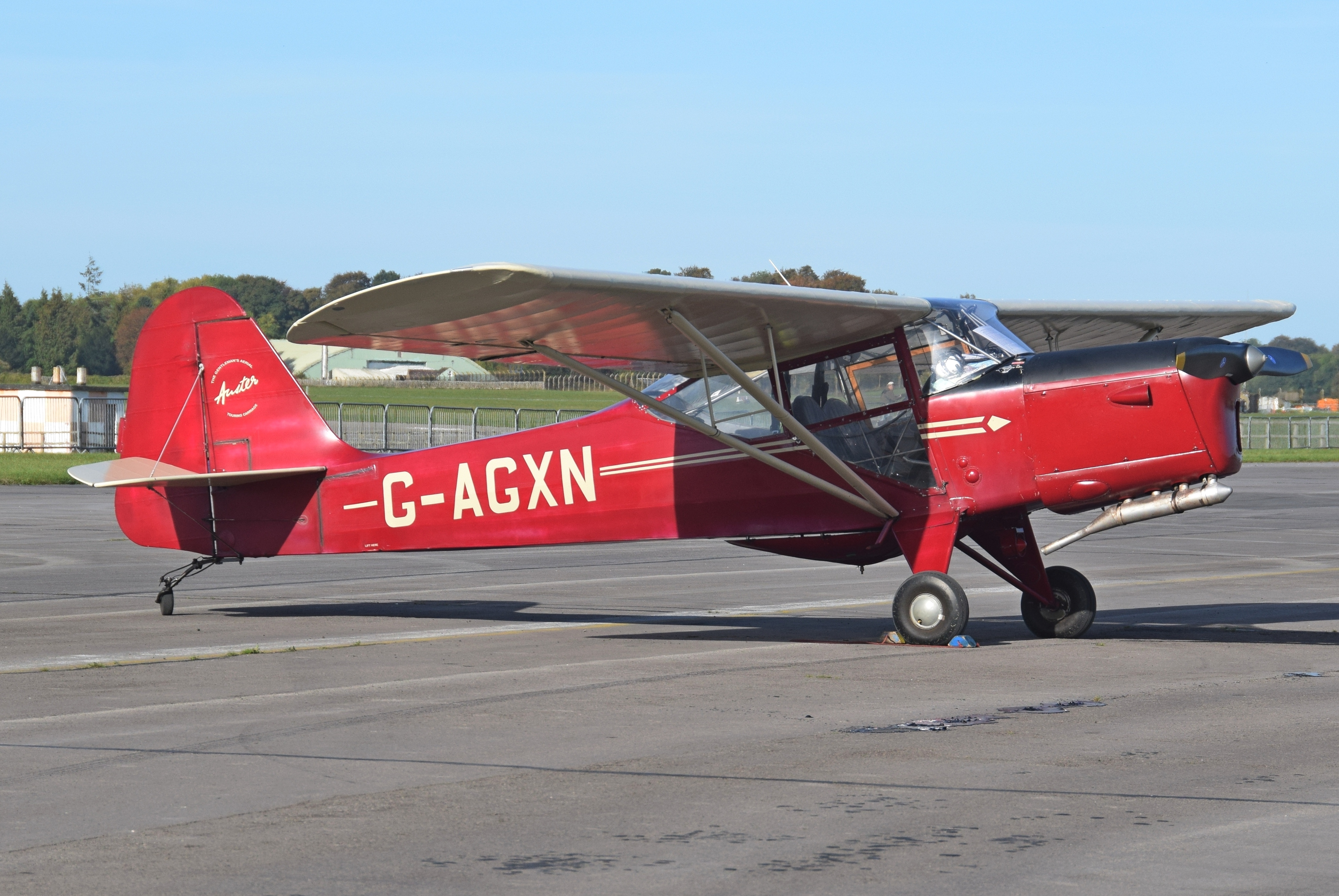 Auster J/1N Alpha aircraft in the static display at the 2018 Cotswold Airport Revival Festival, Gloucestershire, England. Reg G-AGXN, built 1946.